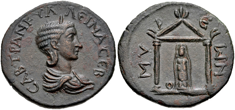 Coin of Tranquillina, from Myra LYCIA, Myra. Tranquillina. Augusta, AD 241-244. Æ (32mm, 16.96 g, 6h). CAB · TPANKVΛ ΛЄINA · CЄB, draped bust right, wearing stephane / MV P Є WN, statue of Artemis Eleutheria facing within distyle temple, with patera to lower left. Von Aulock, Münzprägung 182; SNG von Aulock 4372. EF, red-green patina. Extremely rare. Ex Triton IV (5 December 2000), lot 364; Münzen und Medaillen 64 (30 January 1984), lot 175.